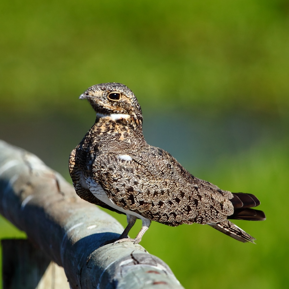 Nacunda Nighthawk at Pantanal in Poconé (MT), Brazil